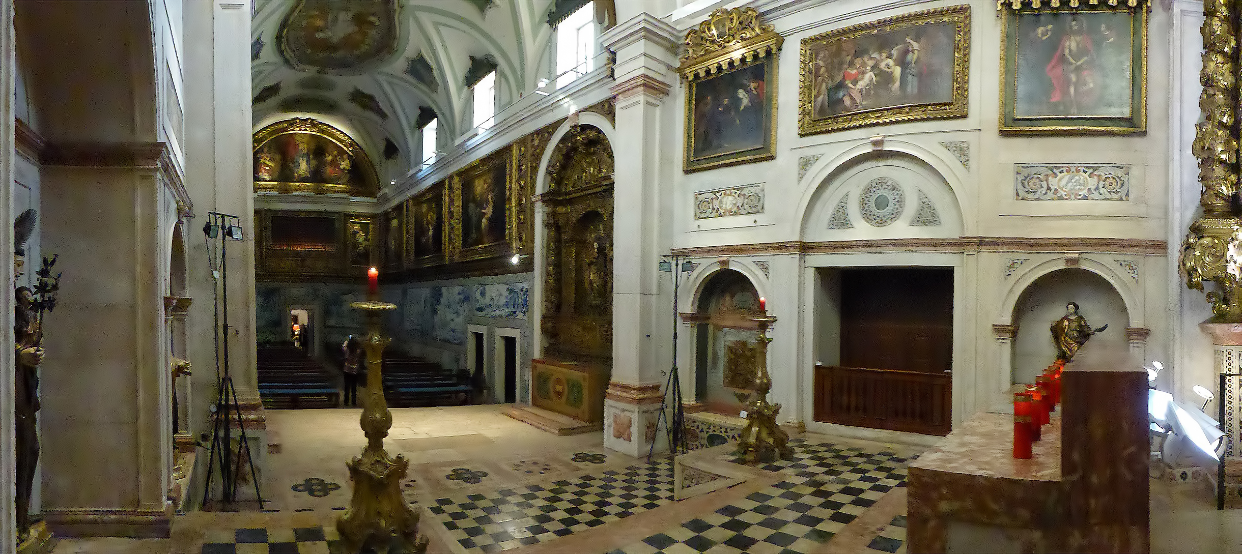 Cardais church, interior